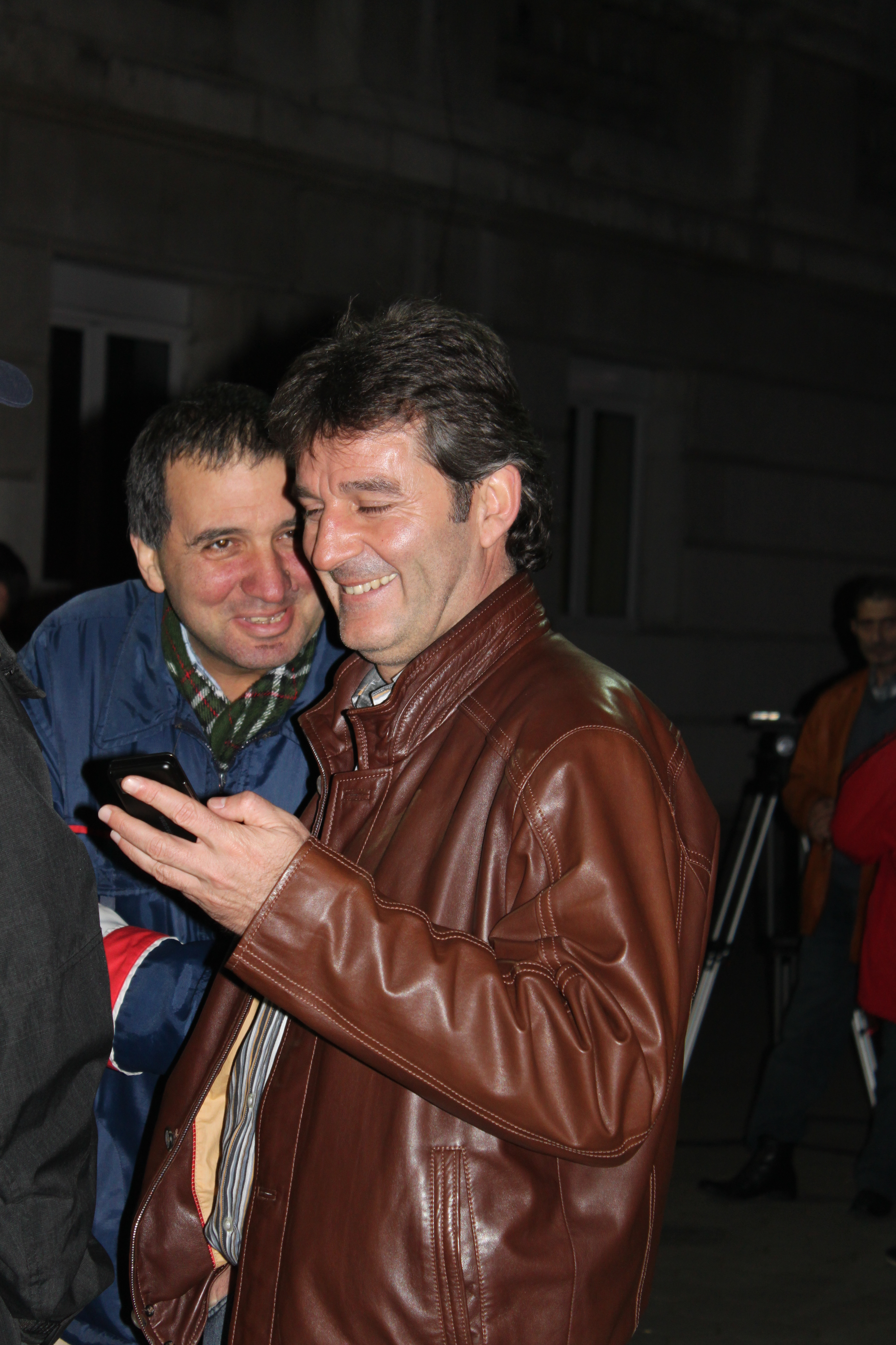 Emil Kostadinov (Bulgarian: Емил Костадинов) (born August 12, 1967 in Sofia) is a former Bulgarian football striker